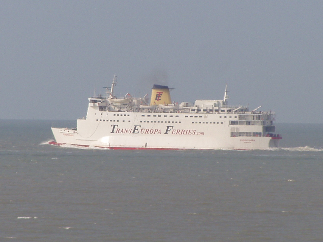 MV Eurovoyager leaving Ostend bound for Ramsgate in 2005 IMO Number: 7613882 MMSI Number: 212610000 Callsign: P3ZK7 Length: 119 m Beam: 24 m